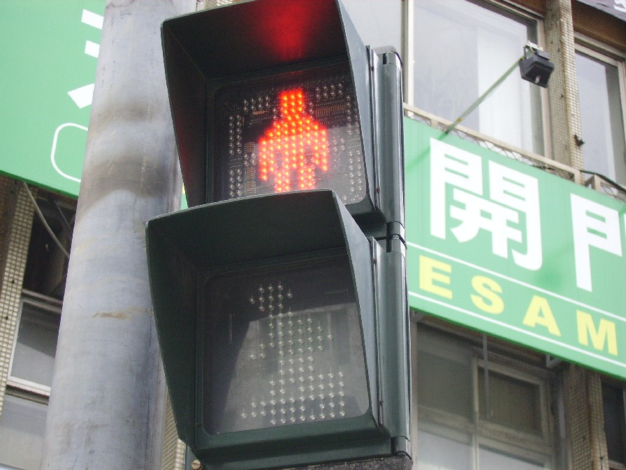 TAIPEI TRAFFIC SIGNALS photo by winertai